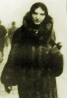 Austrian author Rose Ausländer 1939